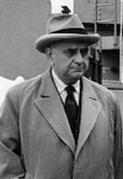 ex Prime Minister of Greece Constantine Tsaldaris